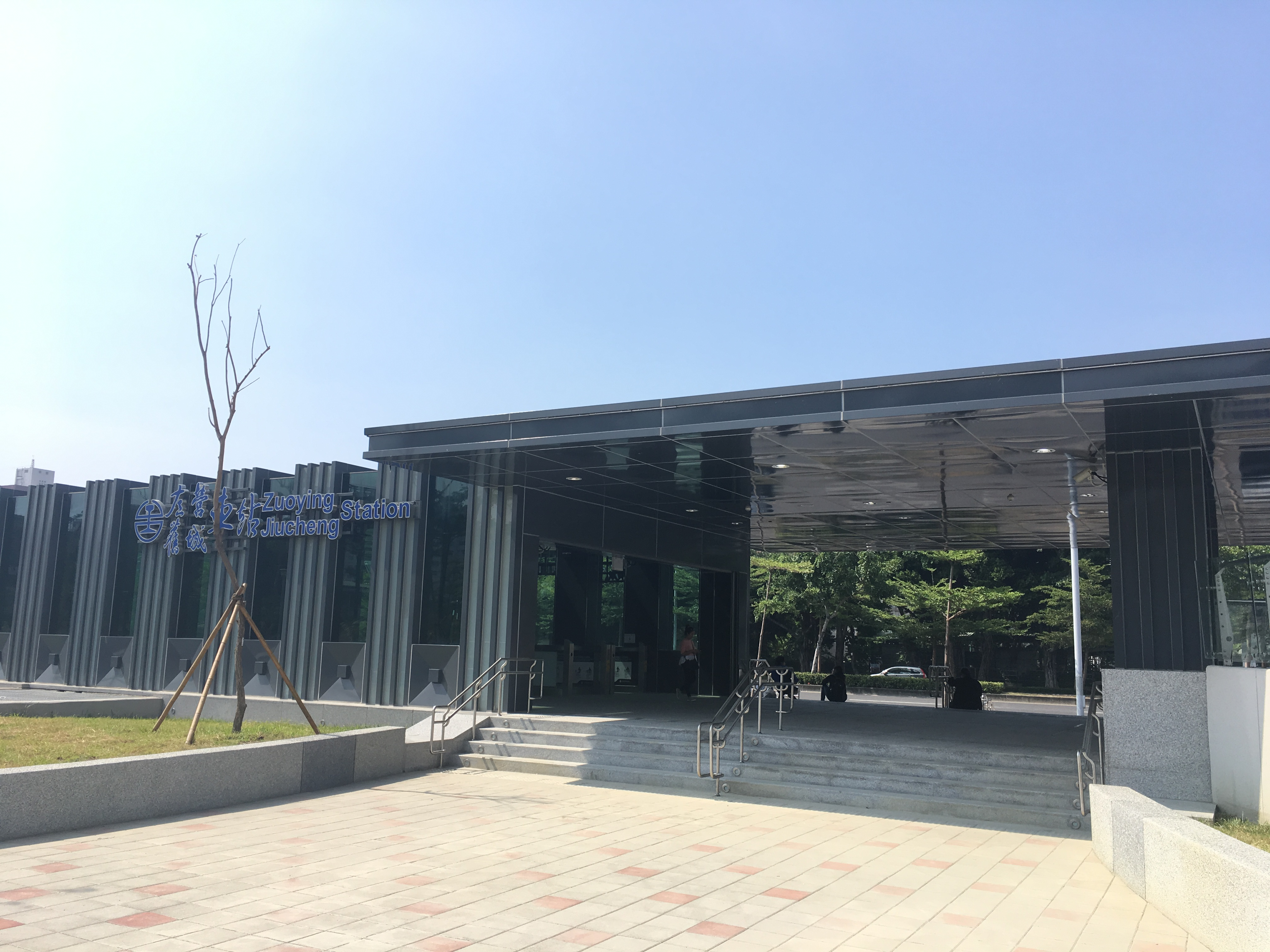 Entrance of underground Zuoying (Jiucheng) Station